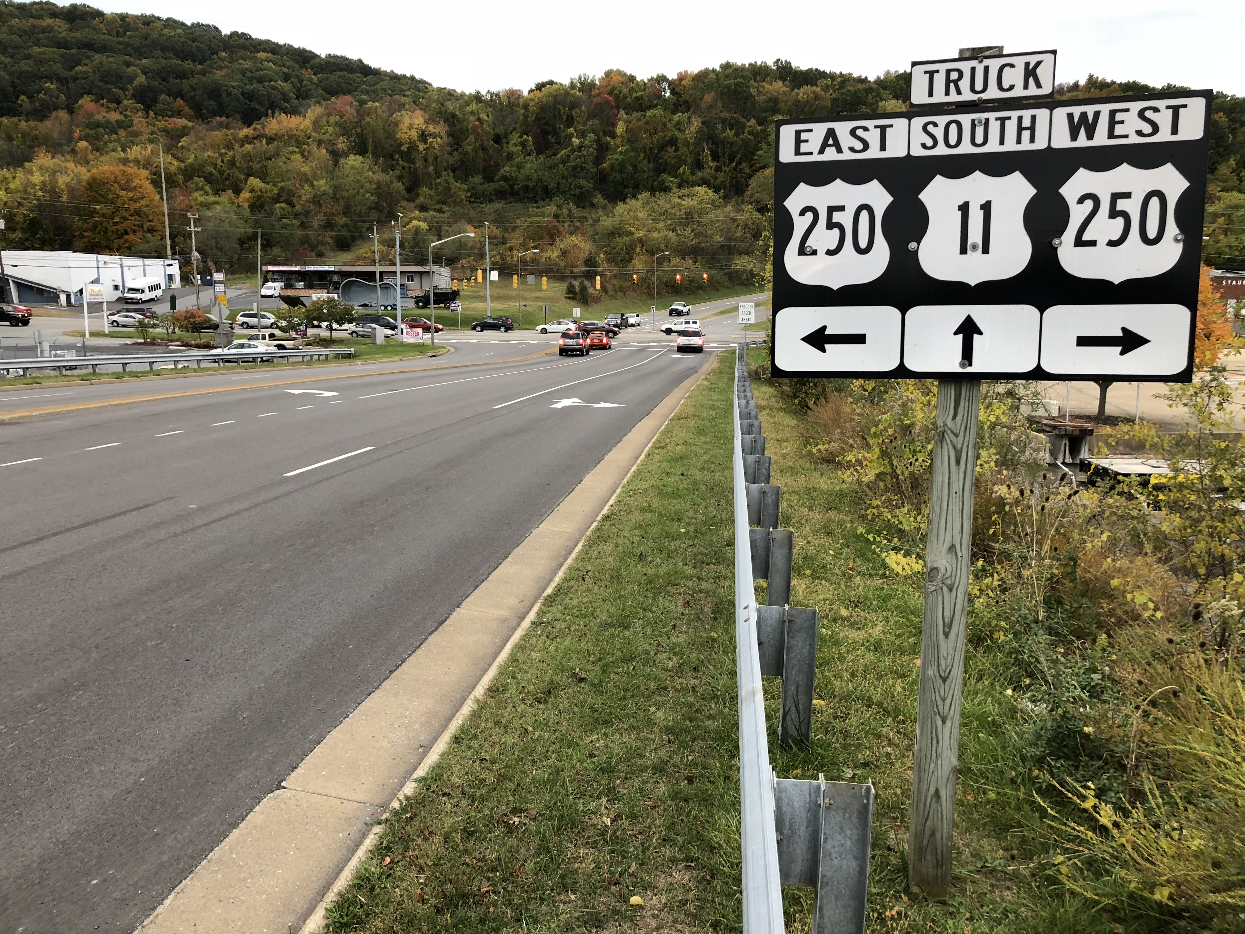 View south along Virginia State Route 261 (Statler Boulevard) at the junction with U.S. Route 250 (Richmond Avenue) in Staunton, Virginia